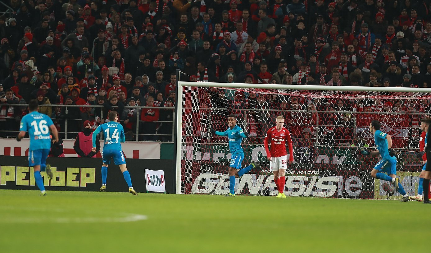 Spartak Moscow vs. Zenit Saint Petersburg (17 March 2019), Wílmar Barrios scores the goal